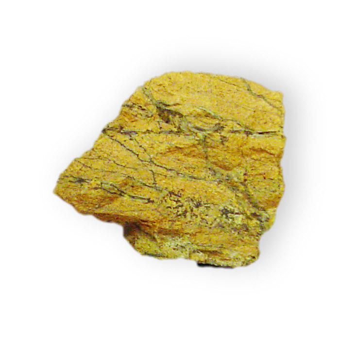 These mineral images are free to use how you wish.